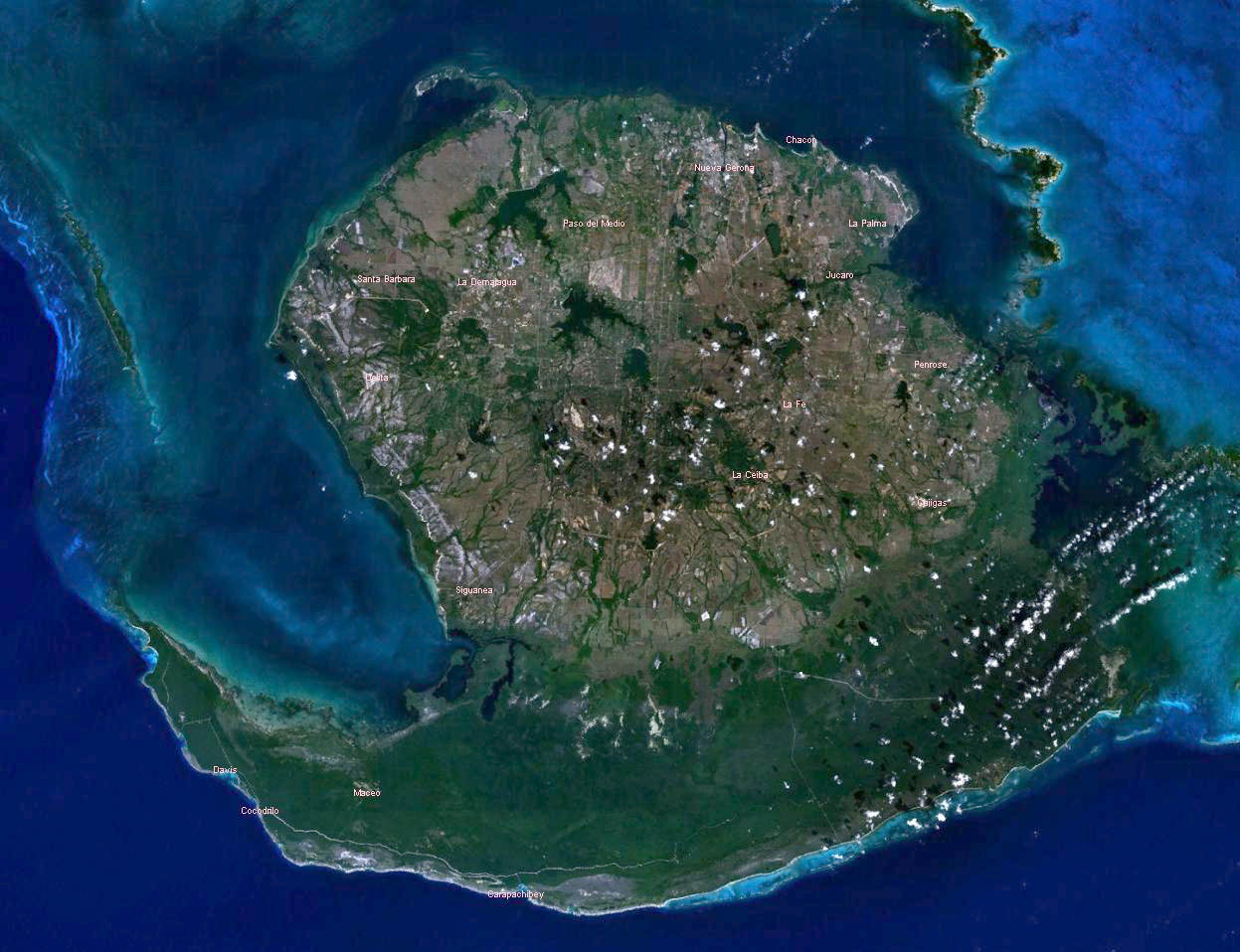 Satellite picture of Isla de la Juventud, Cuba.